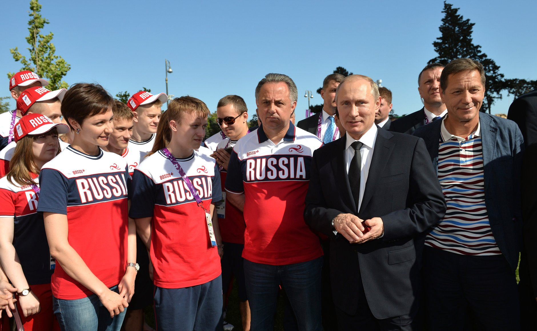 Russian President Vladimir Putin's meeting with Russian sportsmen-participants of the First European Games